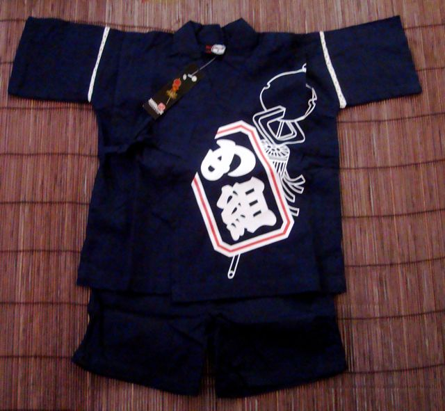 Boy's stylish Jinbei